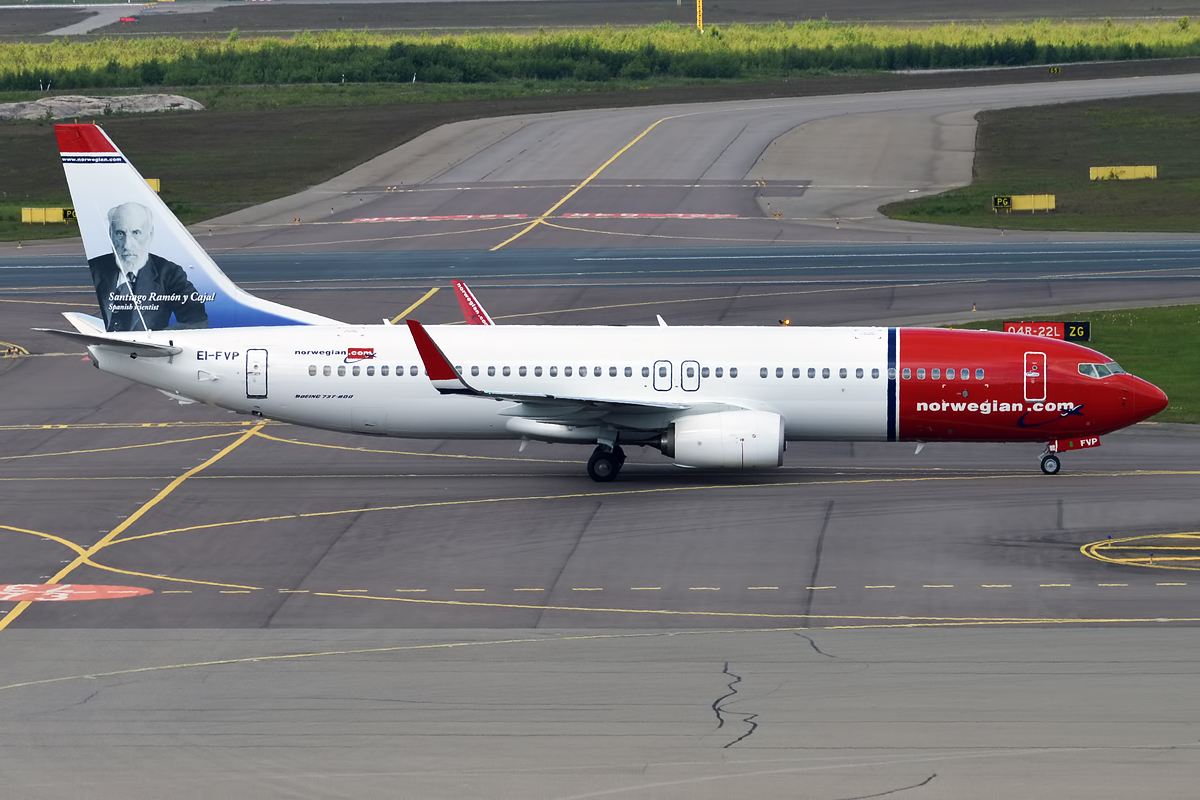 Norwegian (Santiago Ramón y Cajal Livery), EI-FVP, Boeing 737-8JP